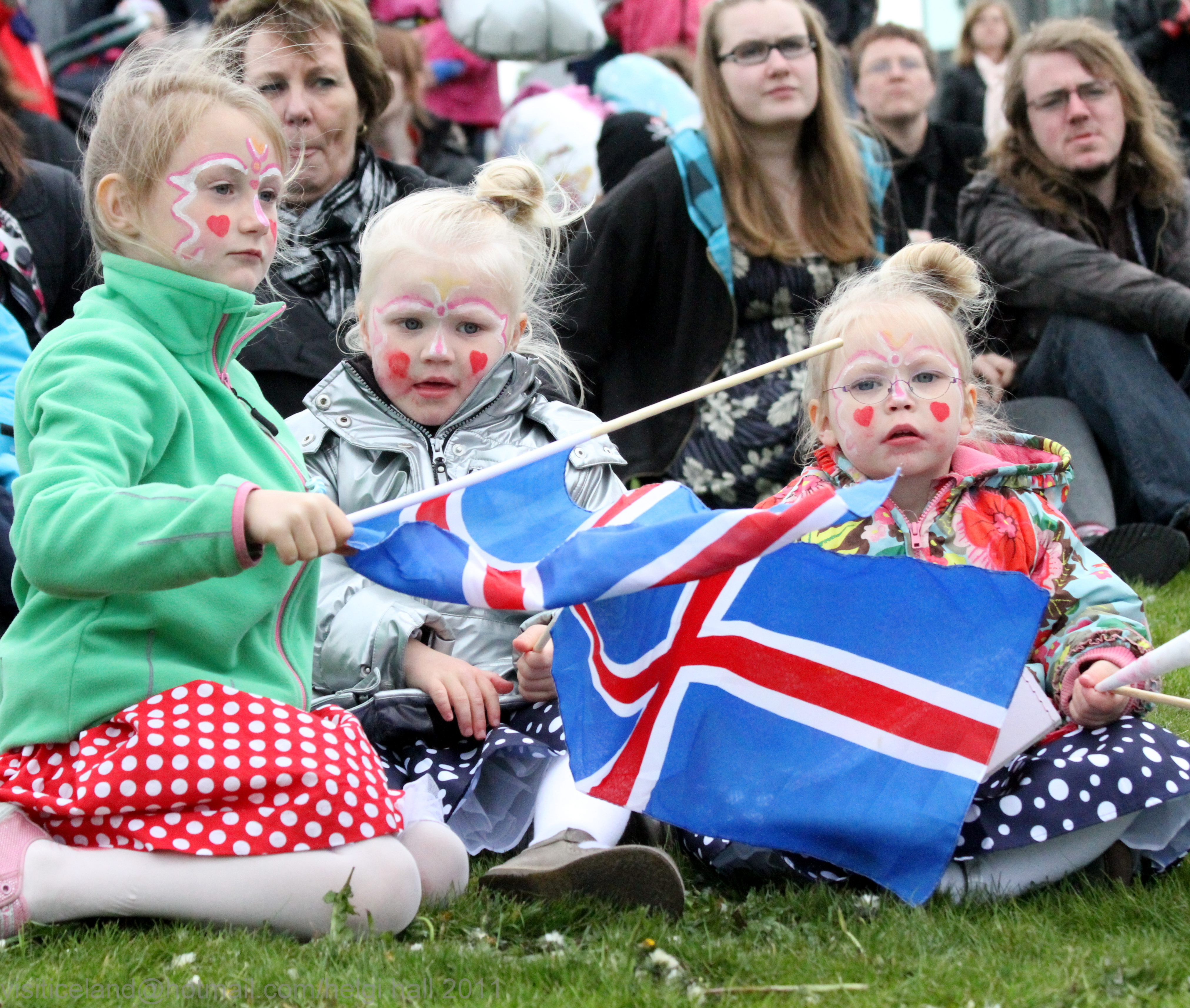 Celebration